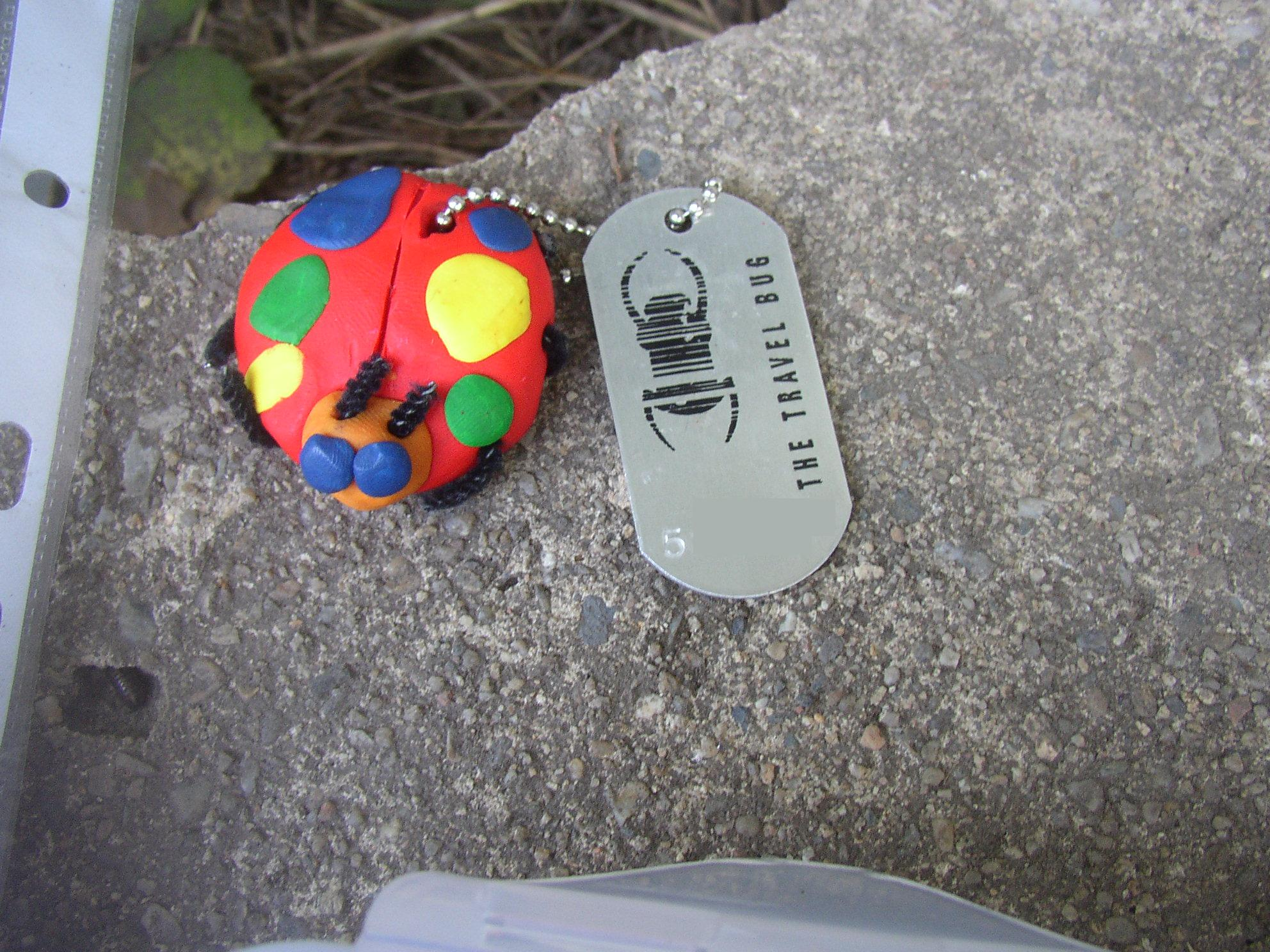 A Travel Bug tag of an older round shape attached to a home-made bug. Country of origin: Alberta, Canada. Spotted in: Prague, Czech Republic. The six-digit tracking number in lower part of the TB tag has been erased from the photo, except the first digit.